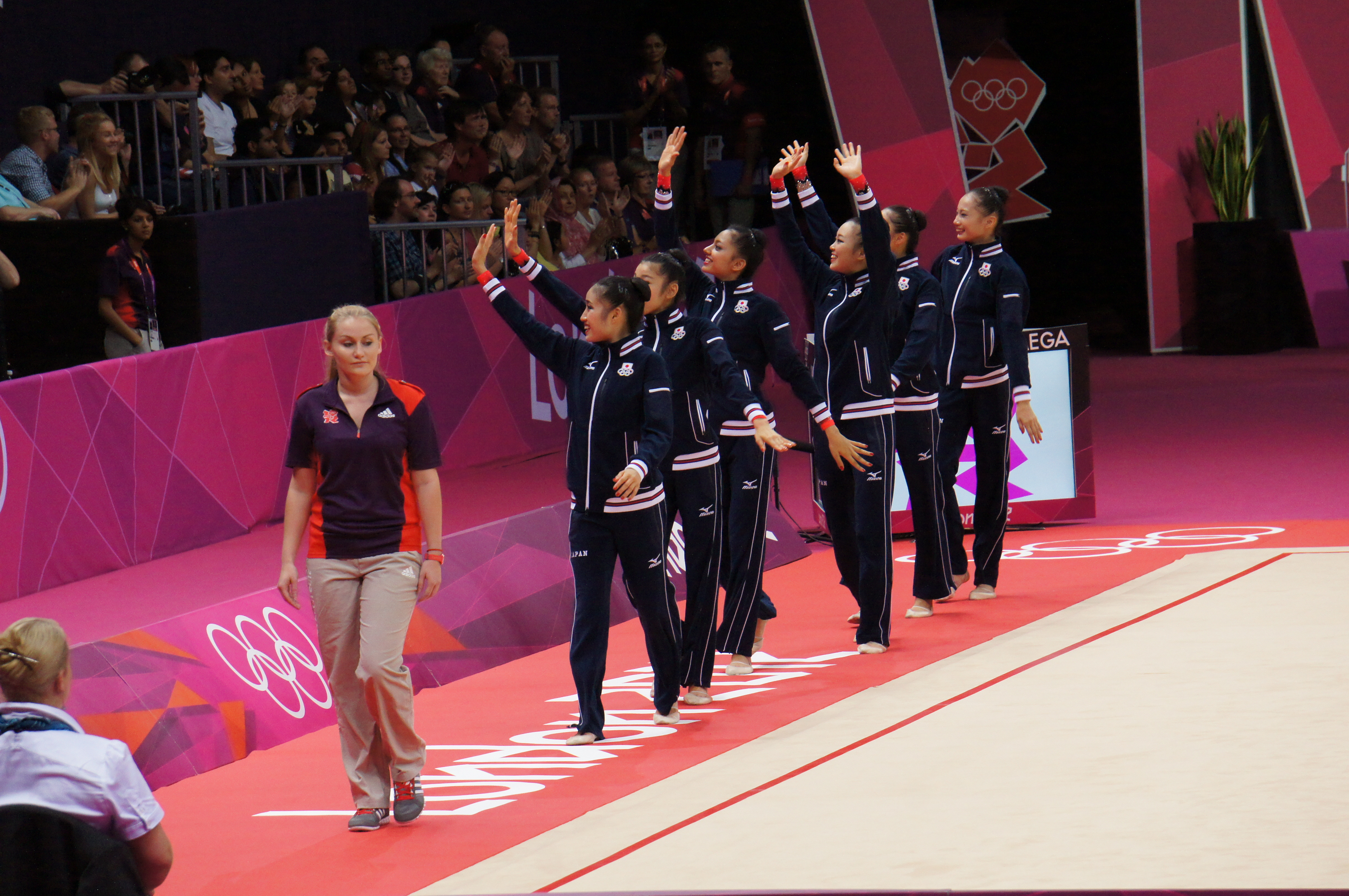 Rhythmic Gymnastics at the Olympic Games in London 2012.